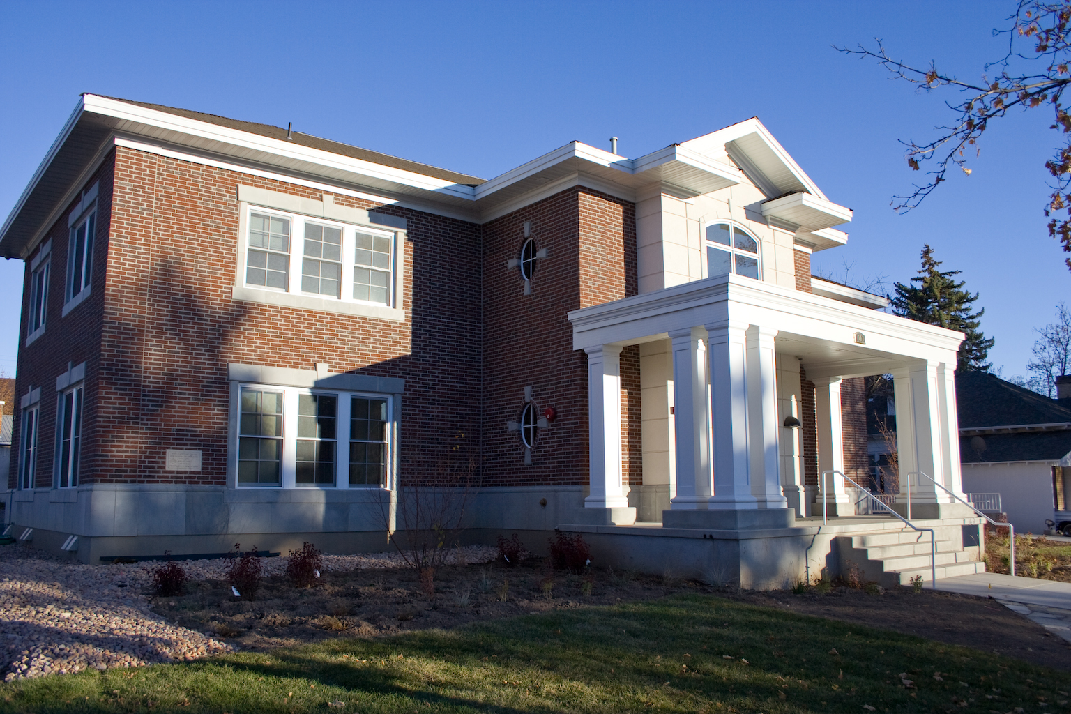 The Anne N. Coltharp Center for Evolving Technologies, Wasatch Academy, built in 2009